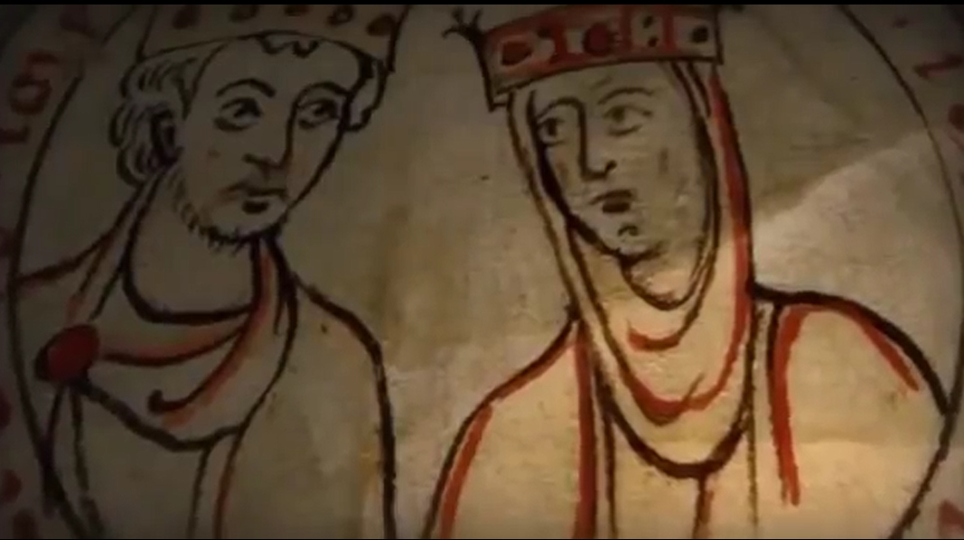 The Holy Roman Emperor Henry IV and his wife Bertha of Savoy from some Medieval painting